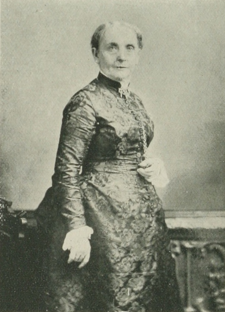 one of the Women of the Century